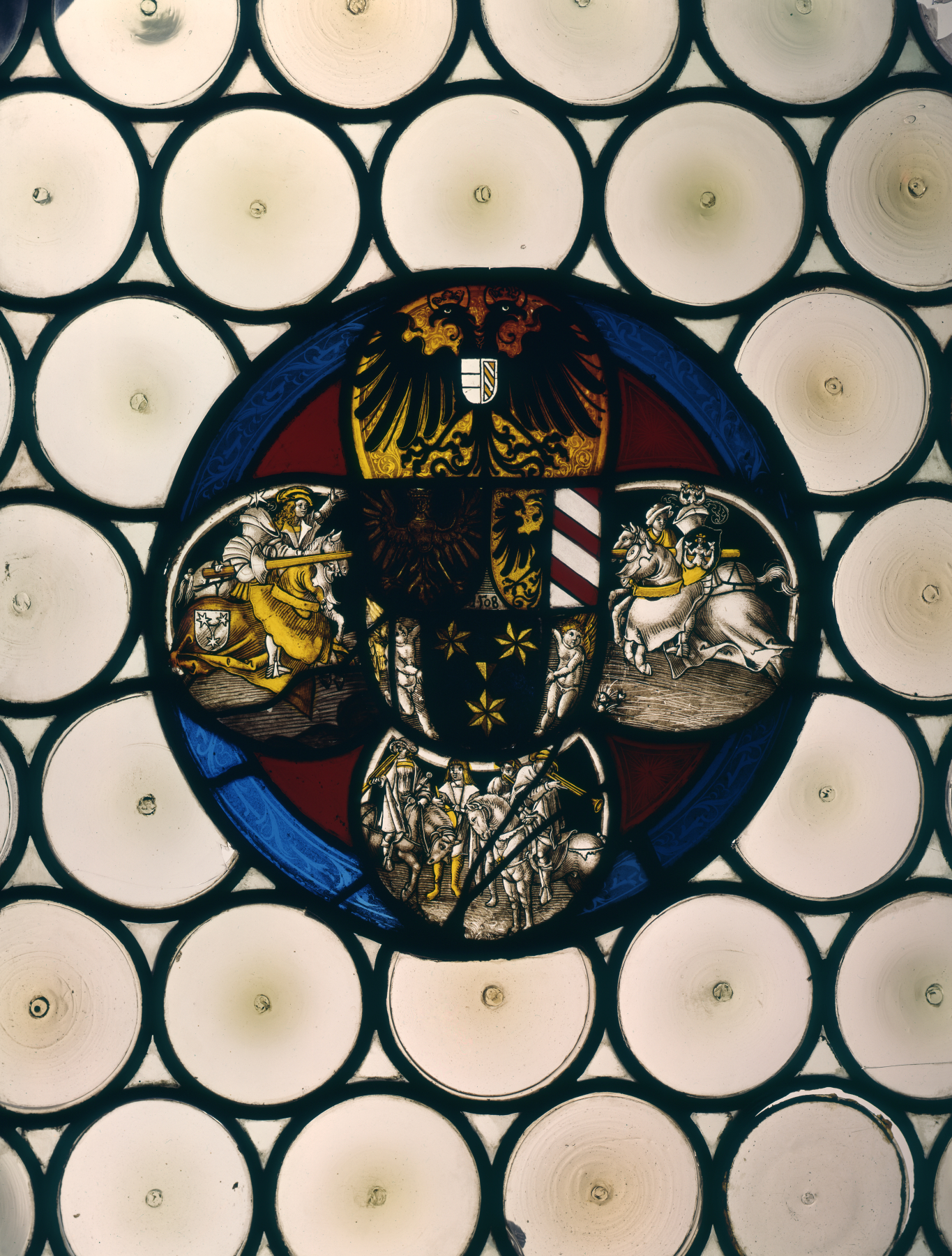 Round or rectangular panels of stained glass added decoration as well as changing colored light patterns to a room. They were set into larger windows made up of small segments of clear glass in either a diamond or round (bull's-eye or bottle) pattern, held together with strips of metal. Within the quatrefoil (four-lobe design) are jousting knights, who bear the coats of arms of the Geuder and Rieter von Kronburg families, with their heralds gathered below. The centrally featured coats of arms are the Habsburg double-headed eagle with the combined arms of the houses of Austria and Burgundy on its breast, the Nuremberg "virgin eagle" (municipal emblem) with (to the right) the arms of Nuremberg as an imperial city, and, below, the stars of the Geuder family.